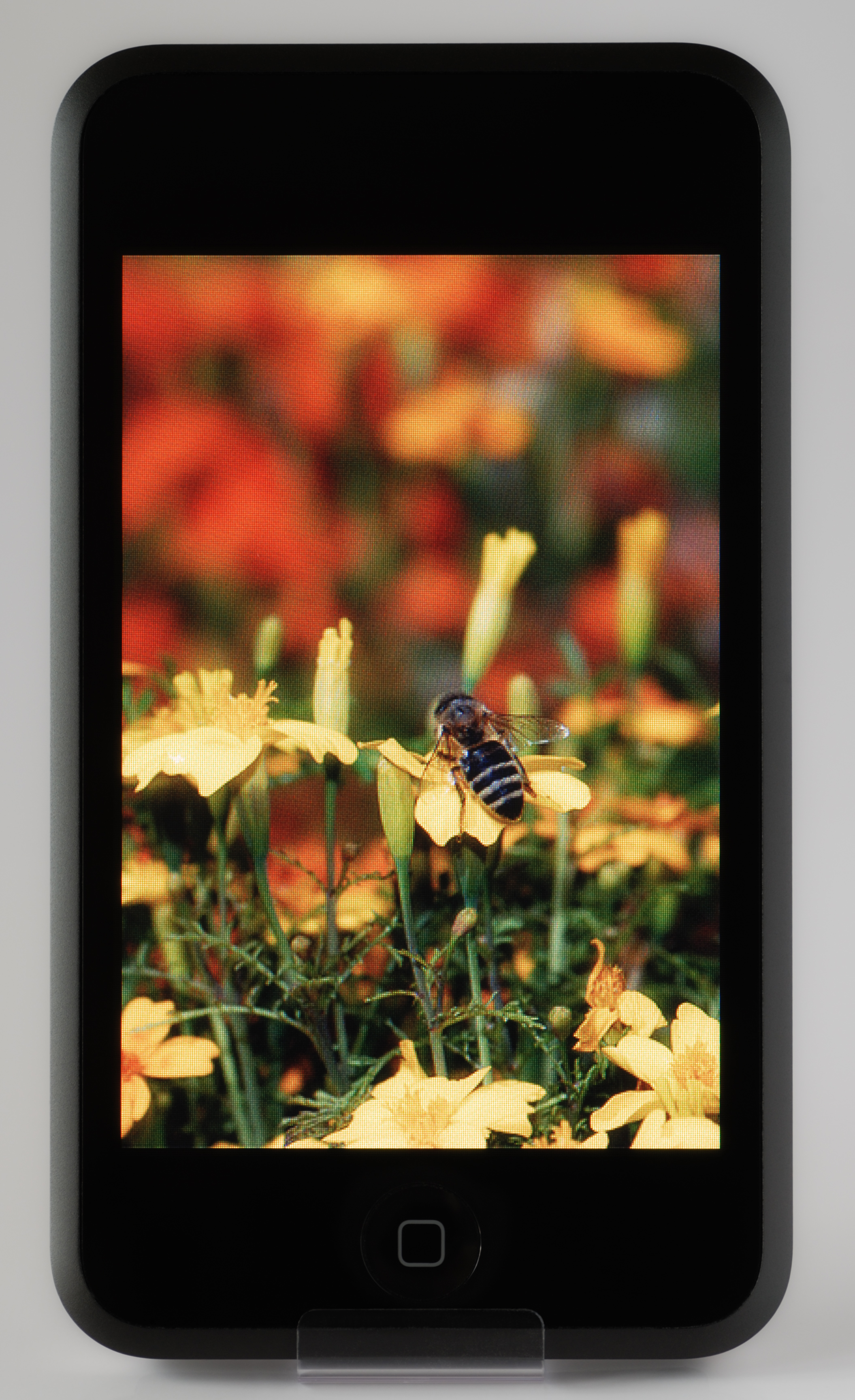 This image shows a iPod Touch. Due to the copyright situation it is not allowed to show the original user interface here. Therefore a part of this image has been displayed on the device while taking the photo.